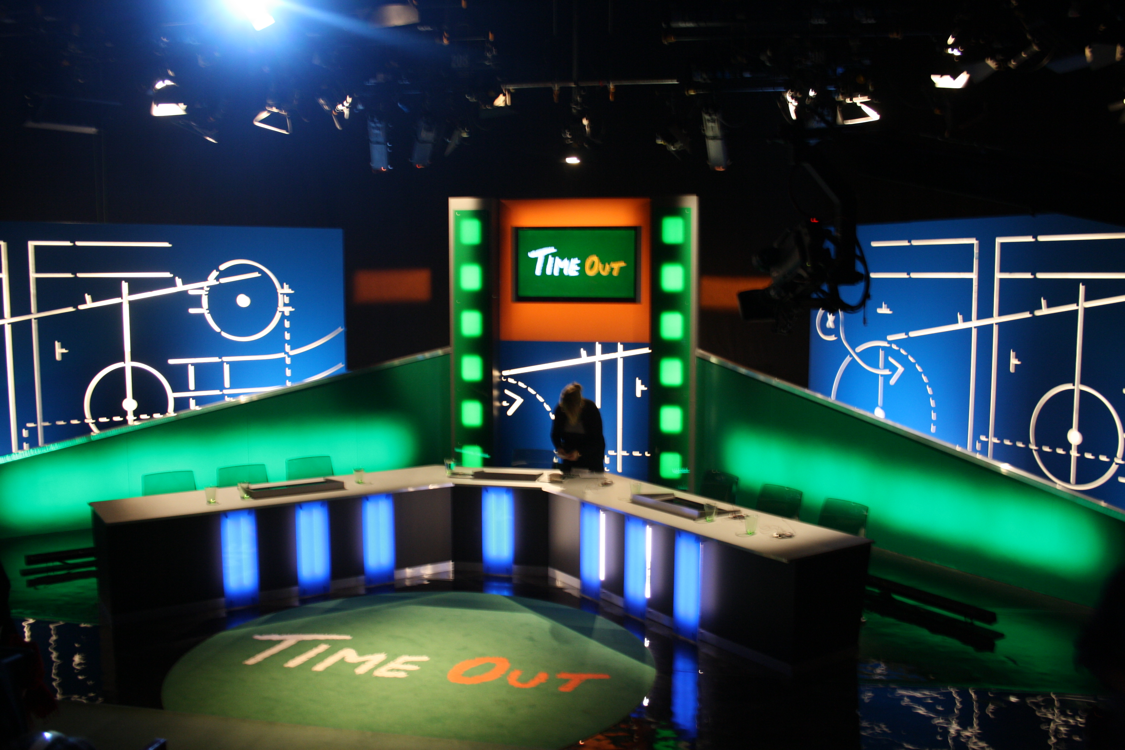 Swedish tv-program Time Out-studio